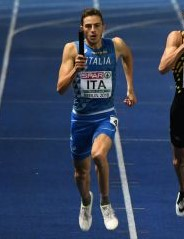 Edoardo Scotti at the 2018 European Athletics Championships